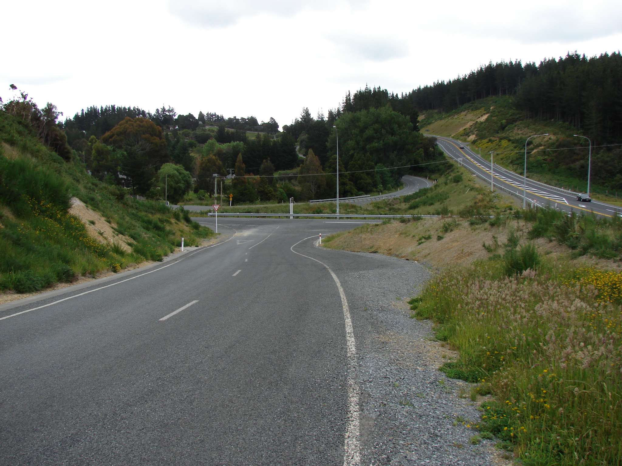 Kaitoke railway station northern approach area. The State Highway 2 realignment (far right) was redesigned to allow for the possible future reinstatement of the Rimutaka Incline Railway. The old State Highway 2 is also visible (far centre). Photographed by Matthew25187 on 2007-12-15.